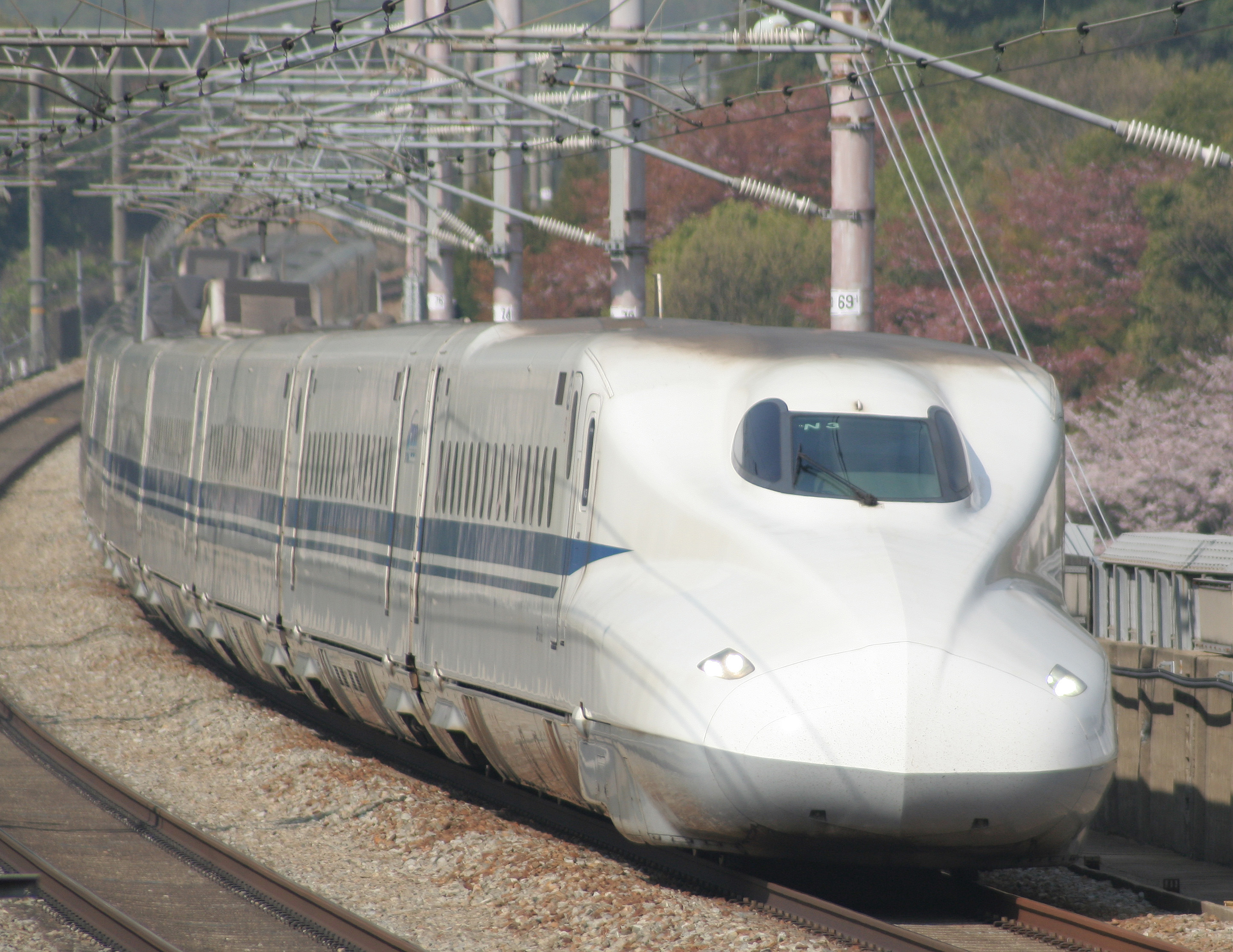 JR West N700 series shinkansen set N3 on the Sanyo Shinkansen between Okayama and Aioi